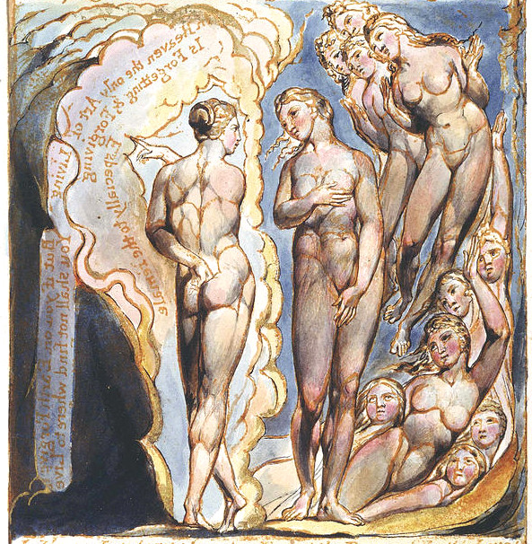 Jerusalem The Emanation of The Giant Albion, object 81-detail